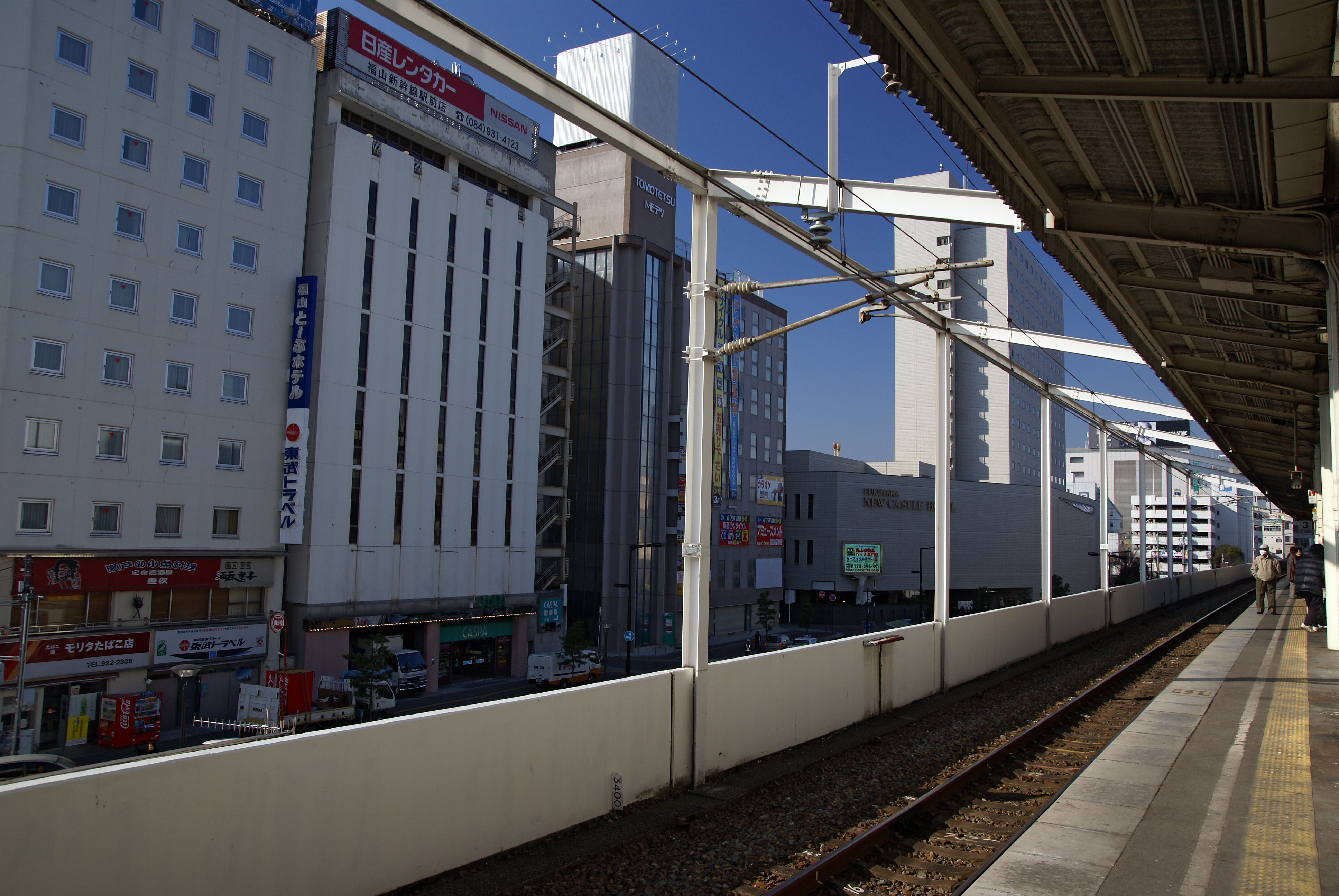 Fukuyama Station in Fukuyama, Hiroshima prefecture, Japan